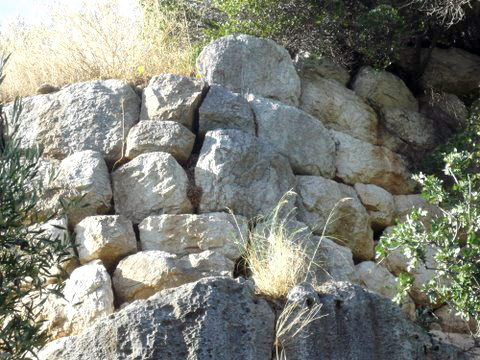 Acropolis of Steirida, Boeotia, Greece